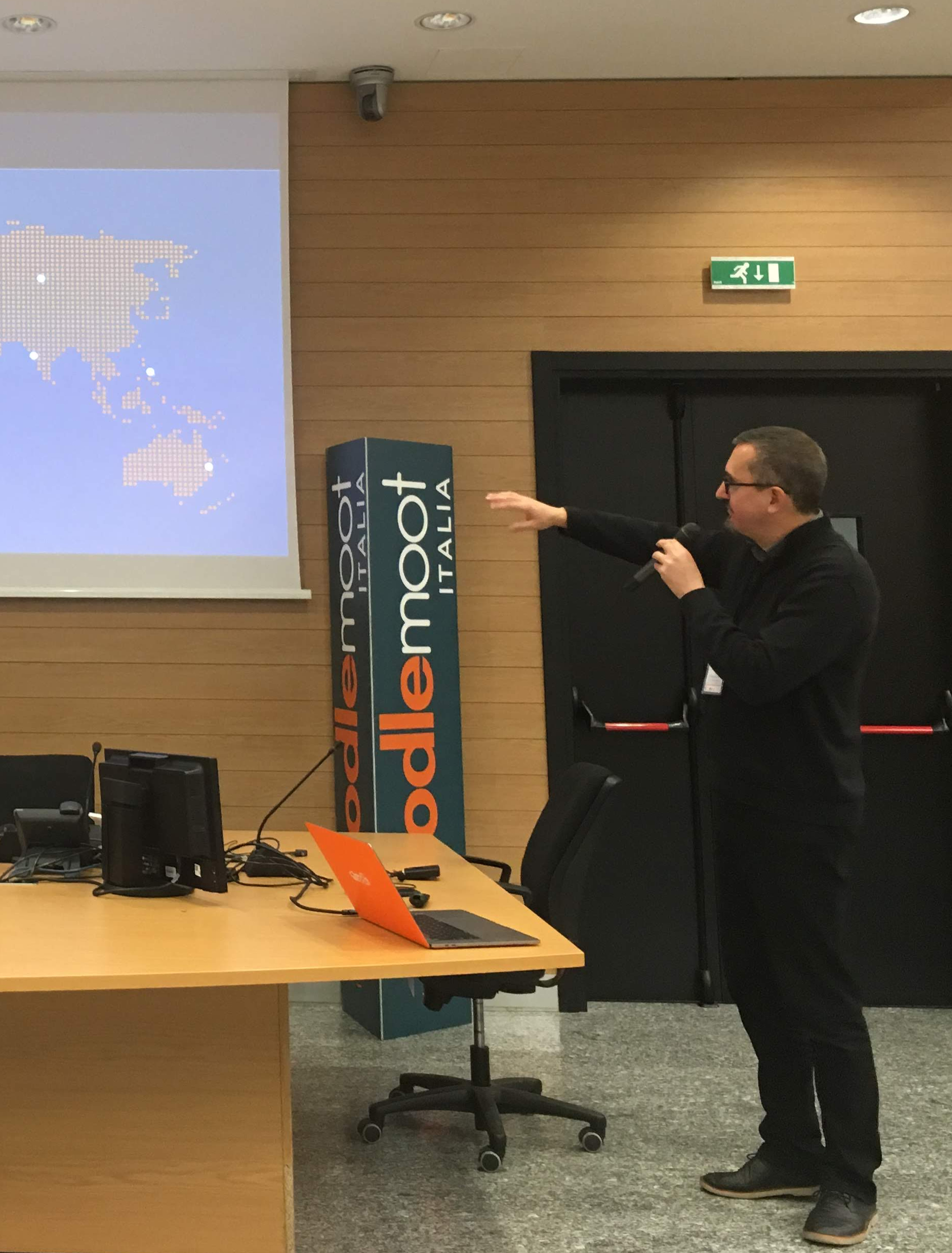 Martin Dougiamas at MoodleMoot Italia 2018 - University of Milano-Bicocca, Milan, Italy